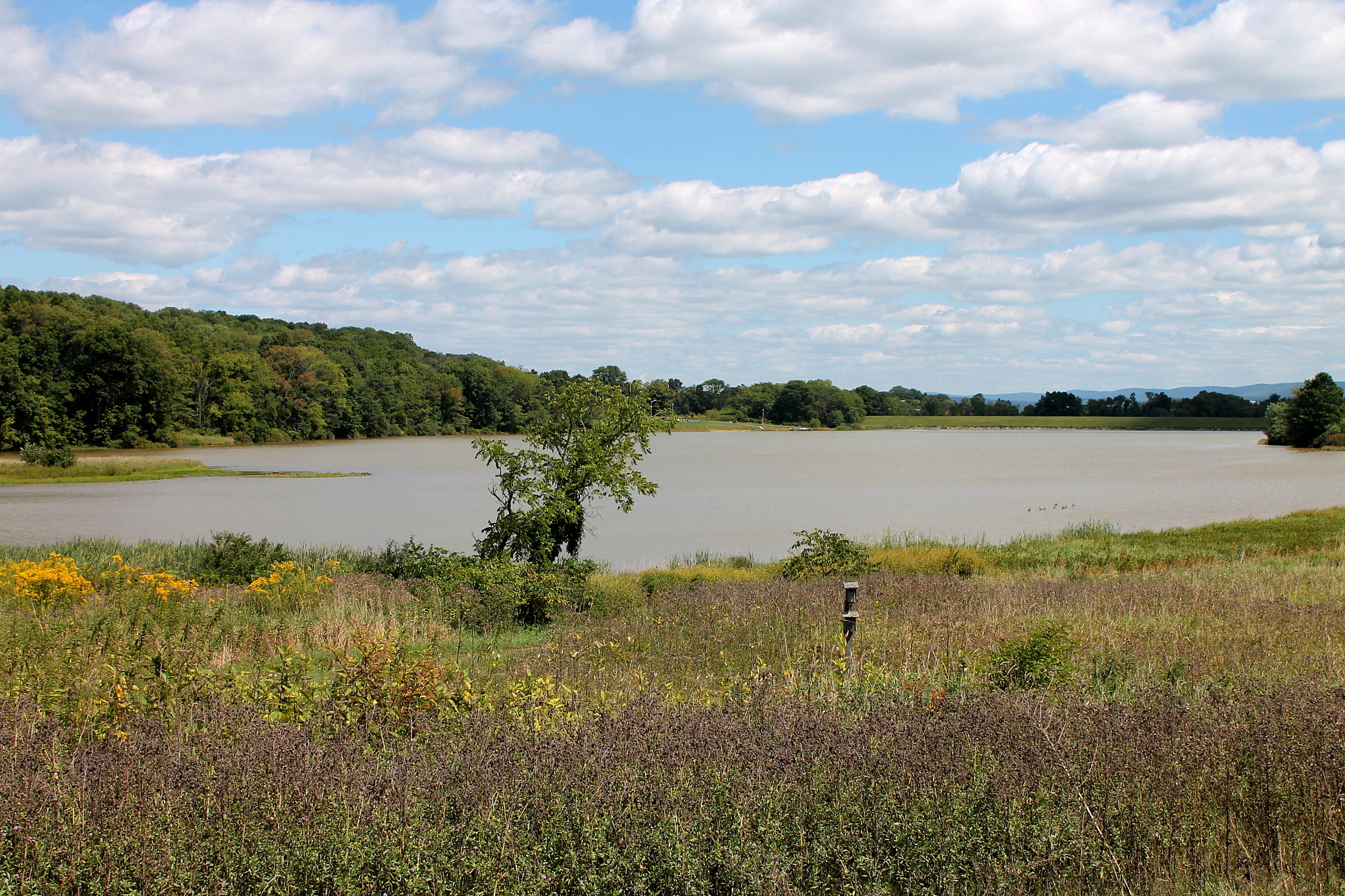 Briar Creek Lake in August. View is from the west. The lake's dam can be seen in the background.